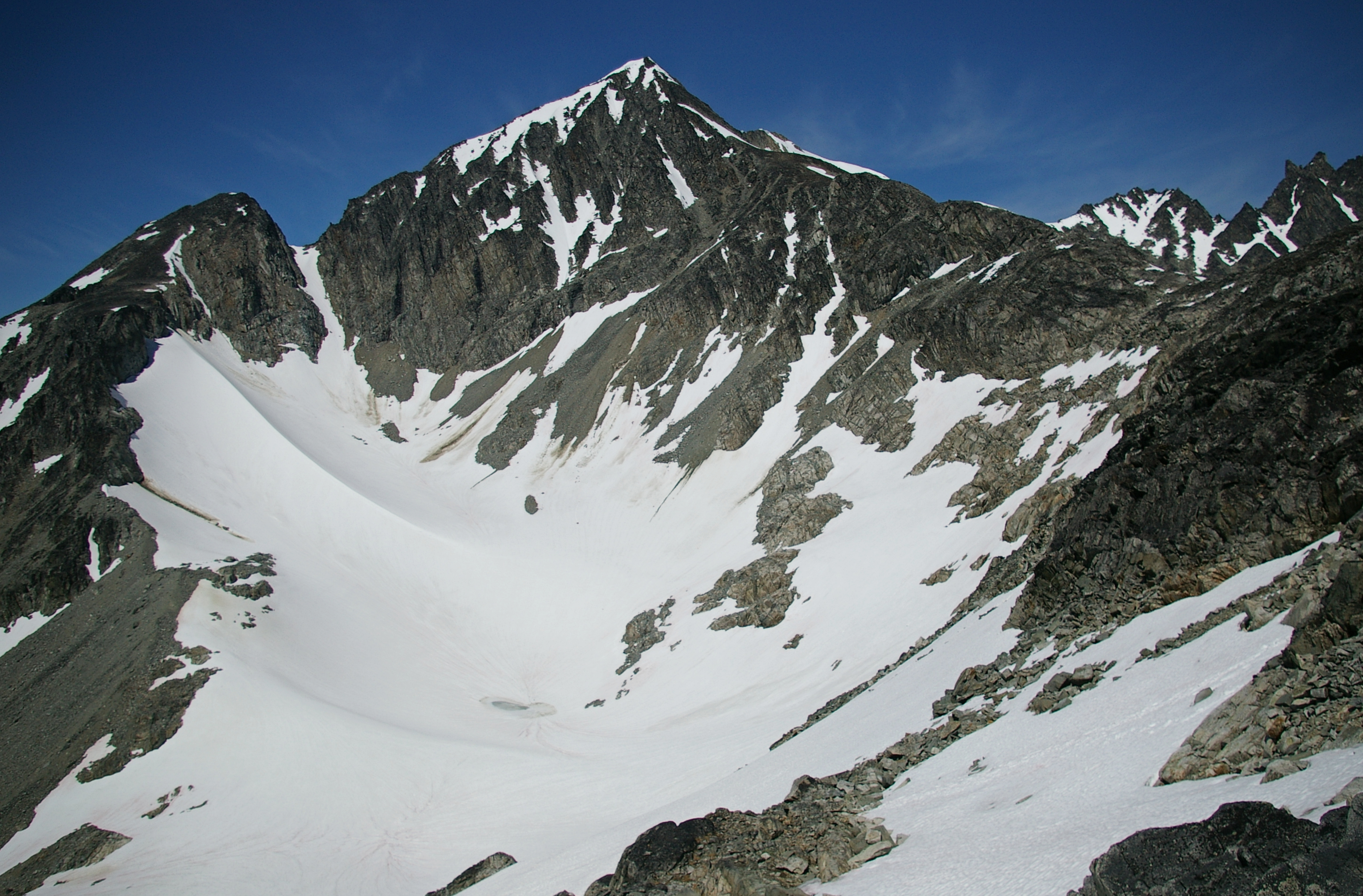 Mount Weart south aspect